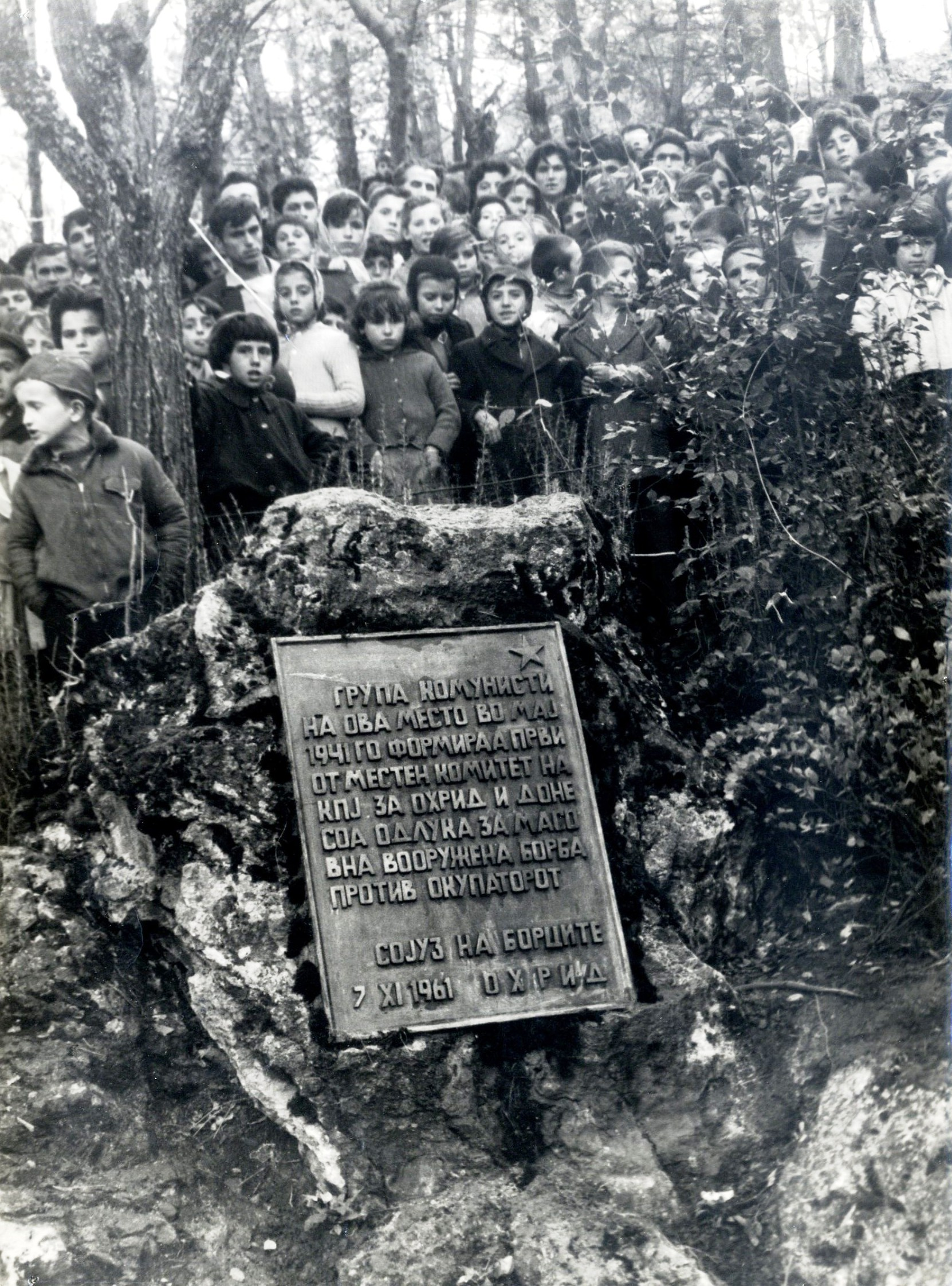 Plaque for the first local committee for the fight against the invaders, WWII, Ohrid, 1961. This media file is produced by Wikipedian in Residence in Category:Wikipedian in Residence at DARM in 2017.